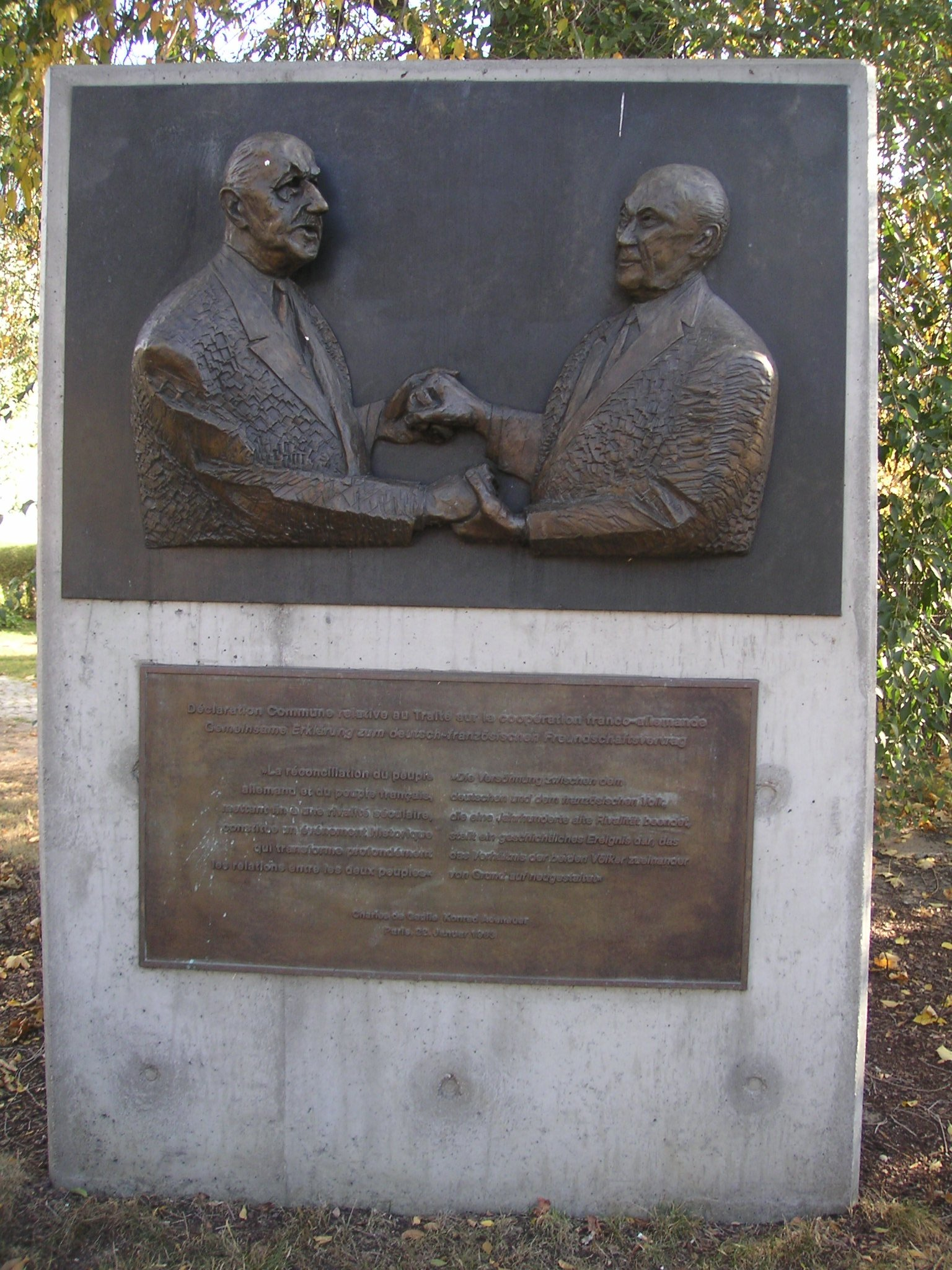 At the western end of Tiergartenstrasse in Berlin, Germany are the offices of the Konrad Adenauer Stiftung, the research institute of the Christian Democratic Party (CDU). Outside the offices is a sculpture depicting Konrad Adenauer and Charles de Gaulle shaking hands, symbolising Adenauer's role in restoring Franco-German relations after World War II.